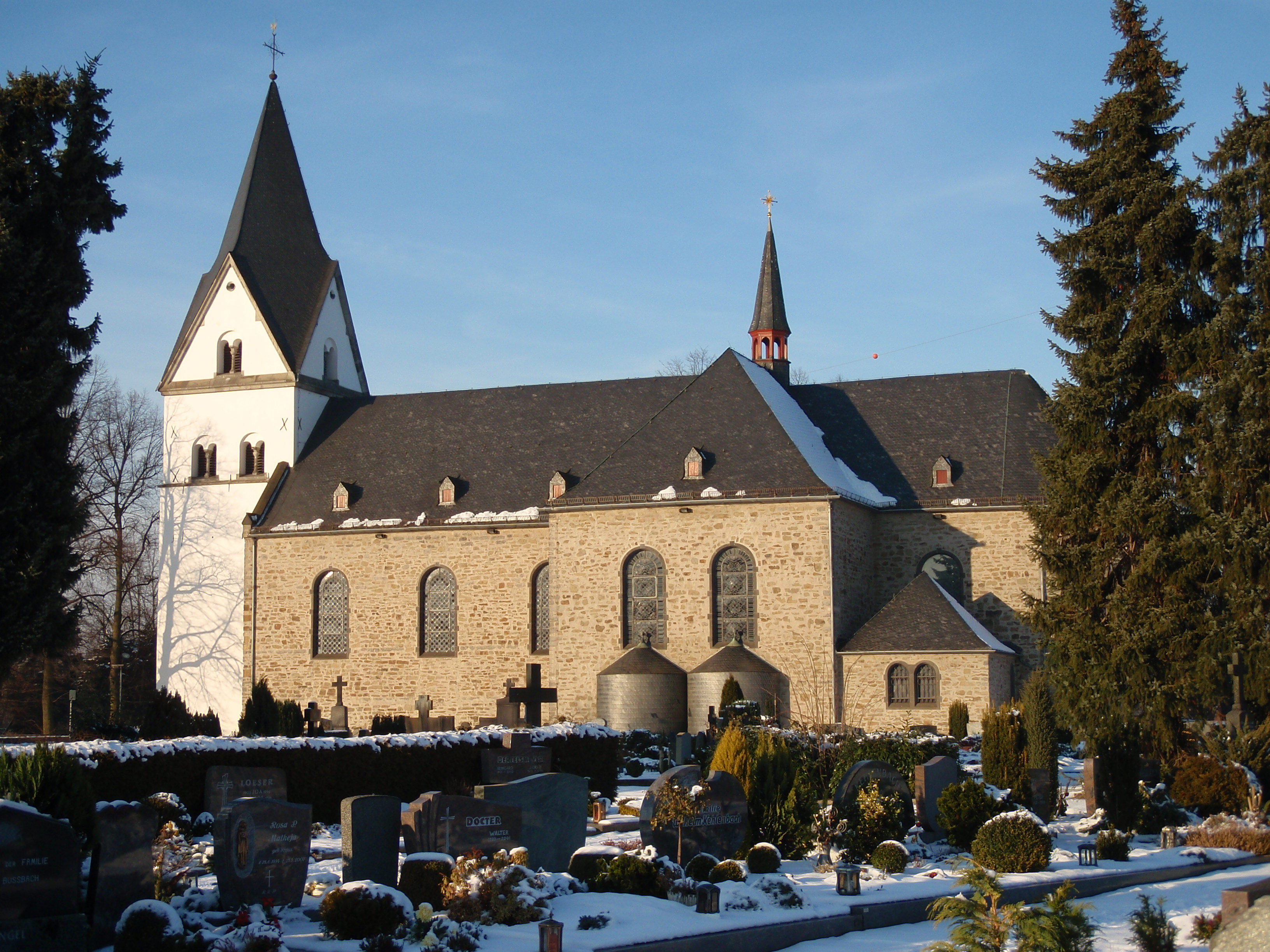 Catholic church St. Martinus in Sankt Augustin-Niederpleis, Germany, picture taken at 11th of January 2009